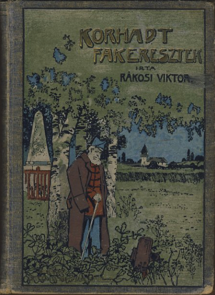 Front cover of the 1909 edition of the Hungarian short story collection "Korhadt fakeresztek" (